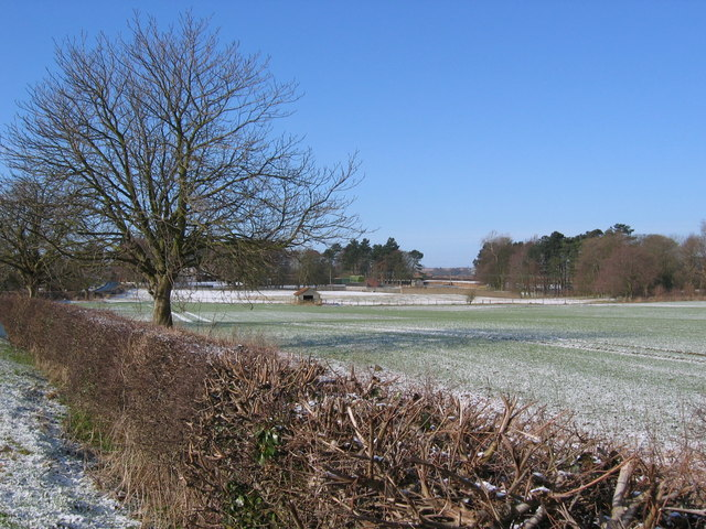 NW of Kennythorpe. Looking west, a typical scene of this grid square.